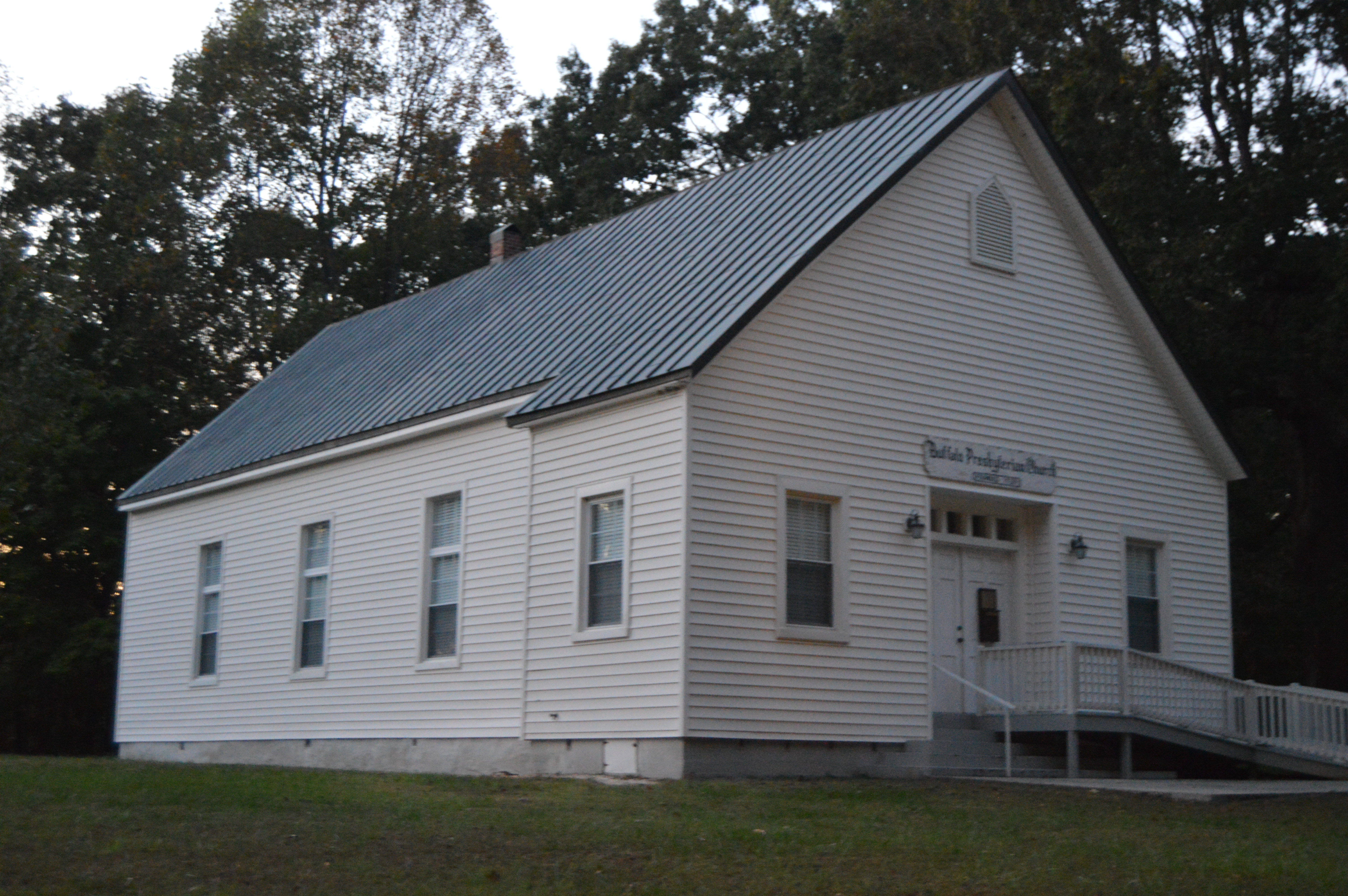 Front and southern side of the Buffalo Presbyterian Church, located on Buffalo Church Road southeast of Pamplin in Prince Edward County, Virginia, United States. Built in 1804, it is listed on the National Register of Historic Places.